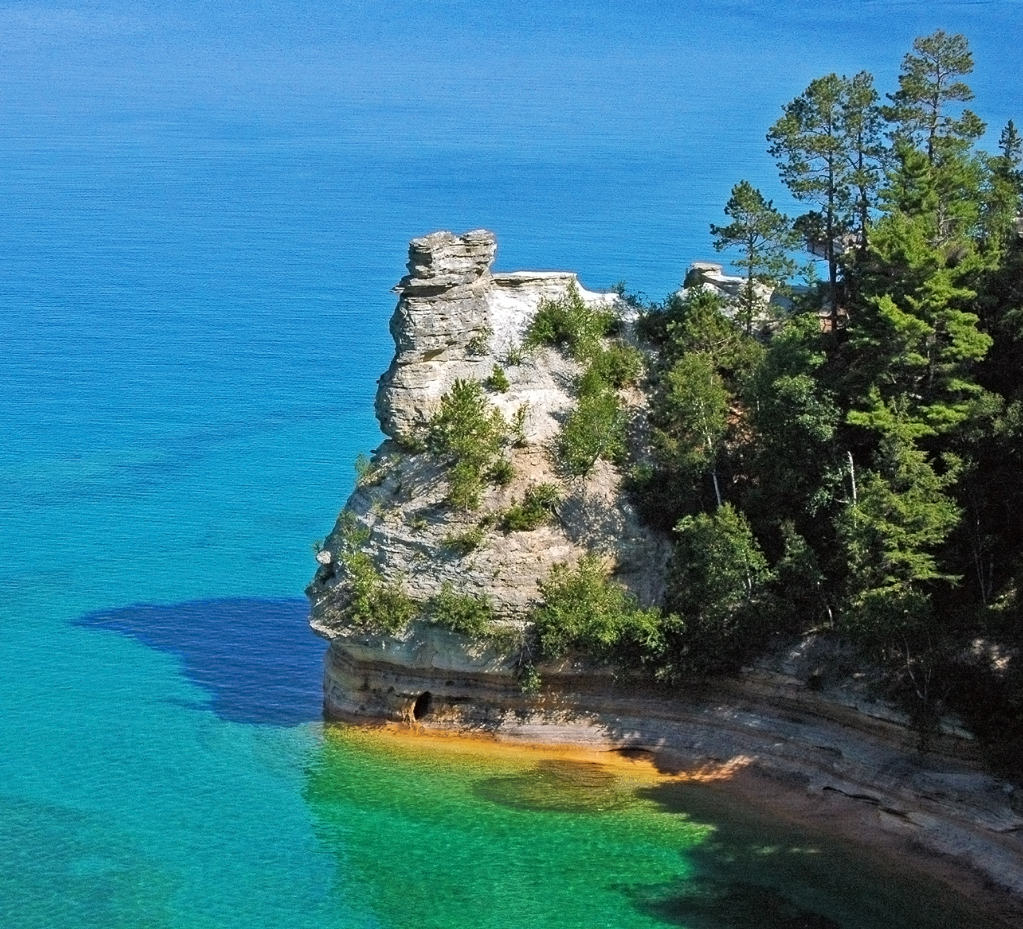 Pictured Rocks National Park, Miners Castle Photo taken on summer vacation, wonderful weather hot and sunny! hike to misquote bay was wonderful except for of course the misquotes!